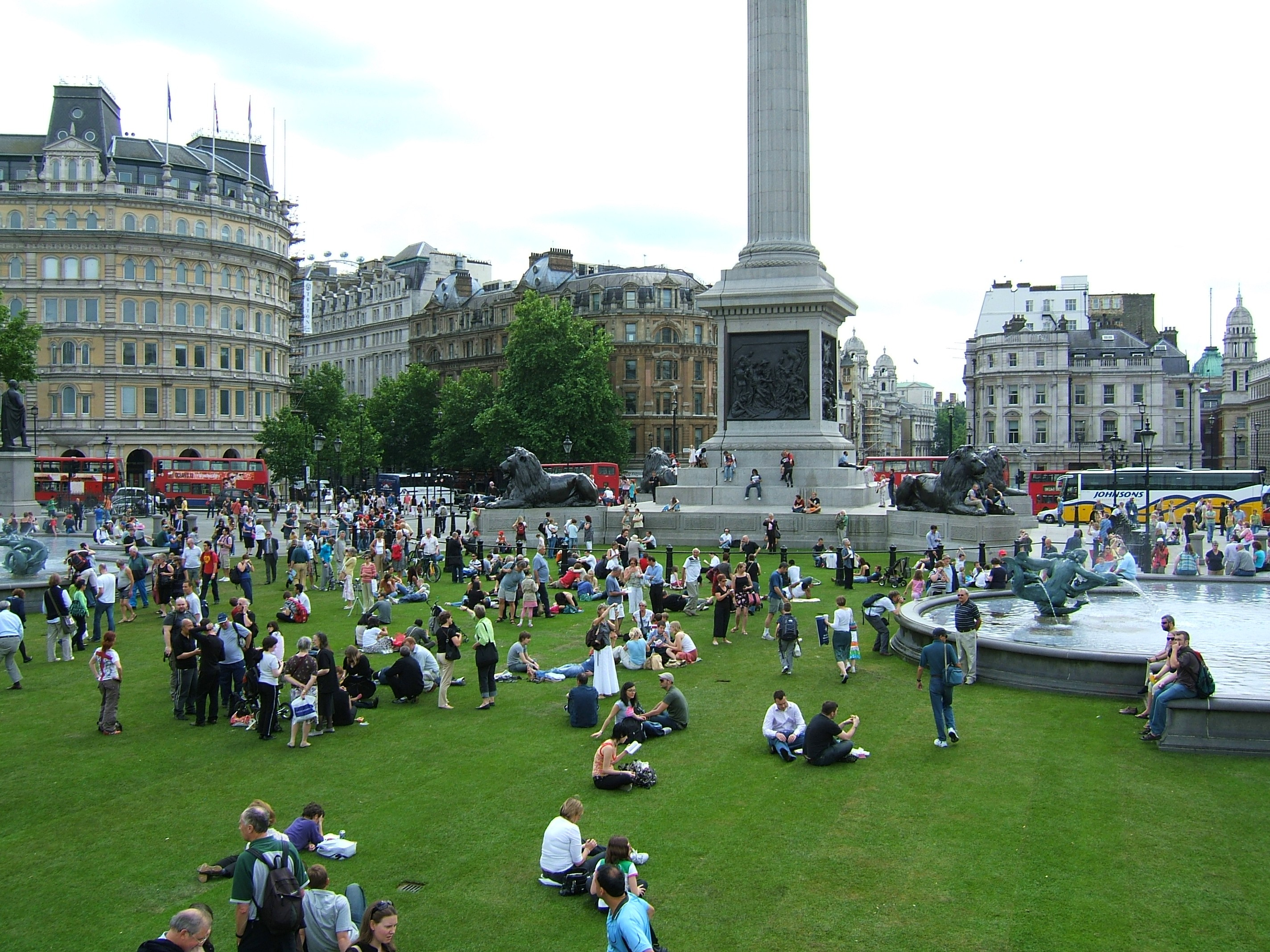 Trafalgar Square was partly turfed for two days to promote green spaces in town. By extraordinary good luck, I was up sightseeing on the second of those days. It felt very strange walking across grass there.